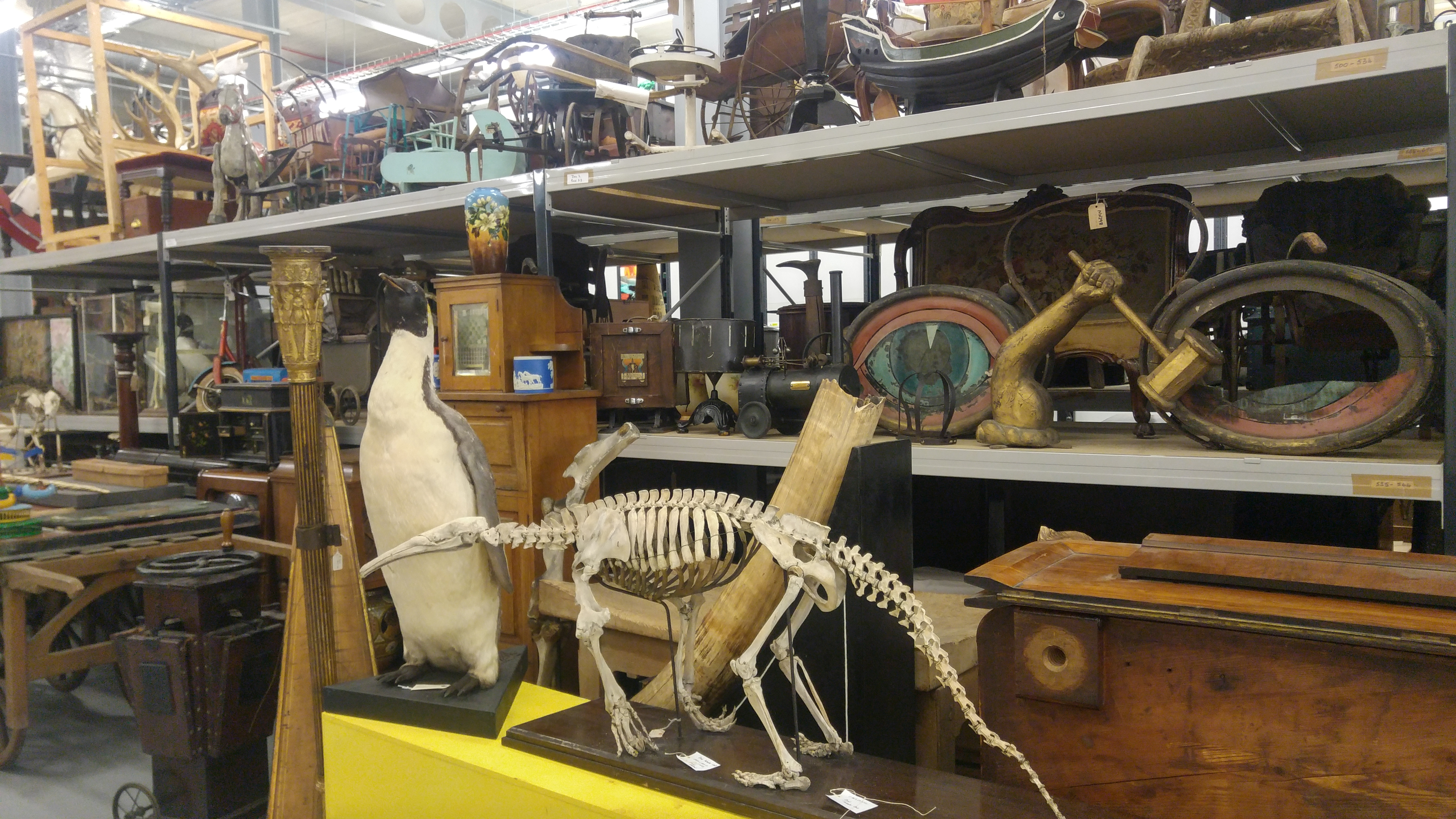 One view of the inside of the storage facility at Leeds Discovery, featuring an anteater skeleton, a penguin and a harp.